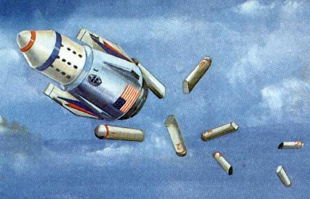 Pegasus VTOVL ejecting propellent tanks.